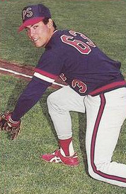 Professional baseball player Ruben Amaro Jr.